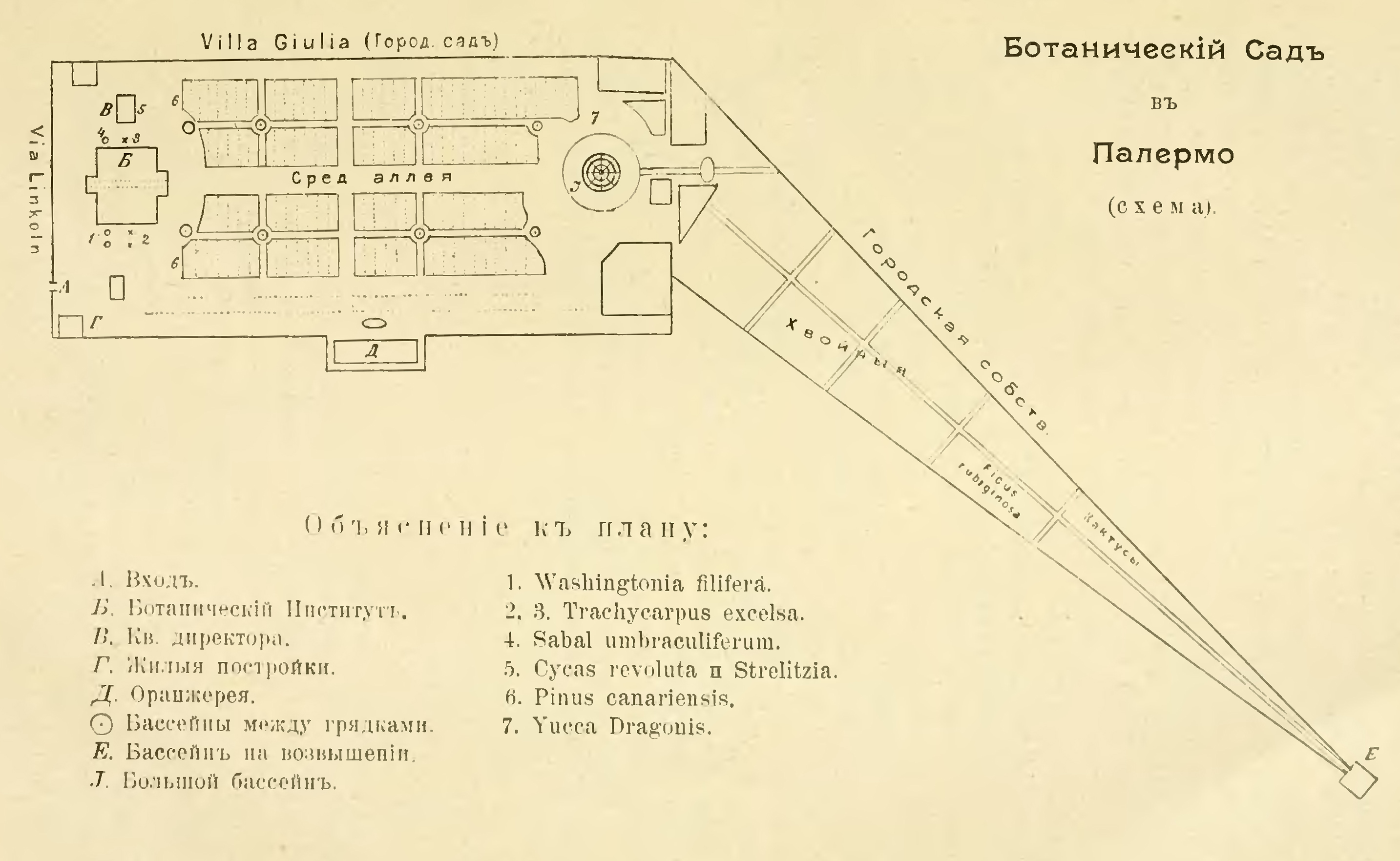 Bot. garden, Palermo. Scheme by Vladimir Ippolitovich Lipsky, Chief Botanist of Imp. Bot. Garden, St.-Pet. 1903. In: Липский В. И. Ботанические учреждения и сады в Южной Европе и Северной Африке (с чертежами и планами). // Второе приложение к Трудам Тифлисского ботанического сада. — СПб, Типо-литография Герольд, 1902—1904. — С. 93